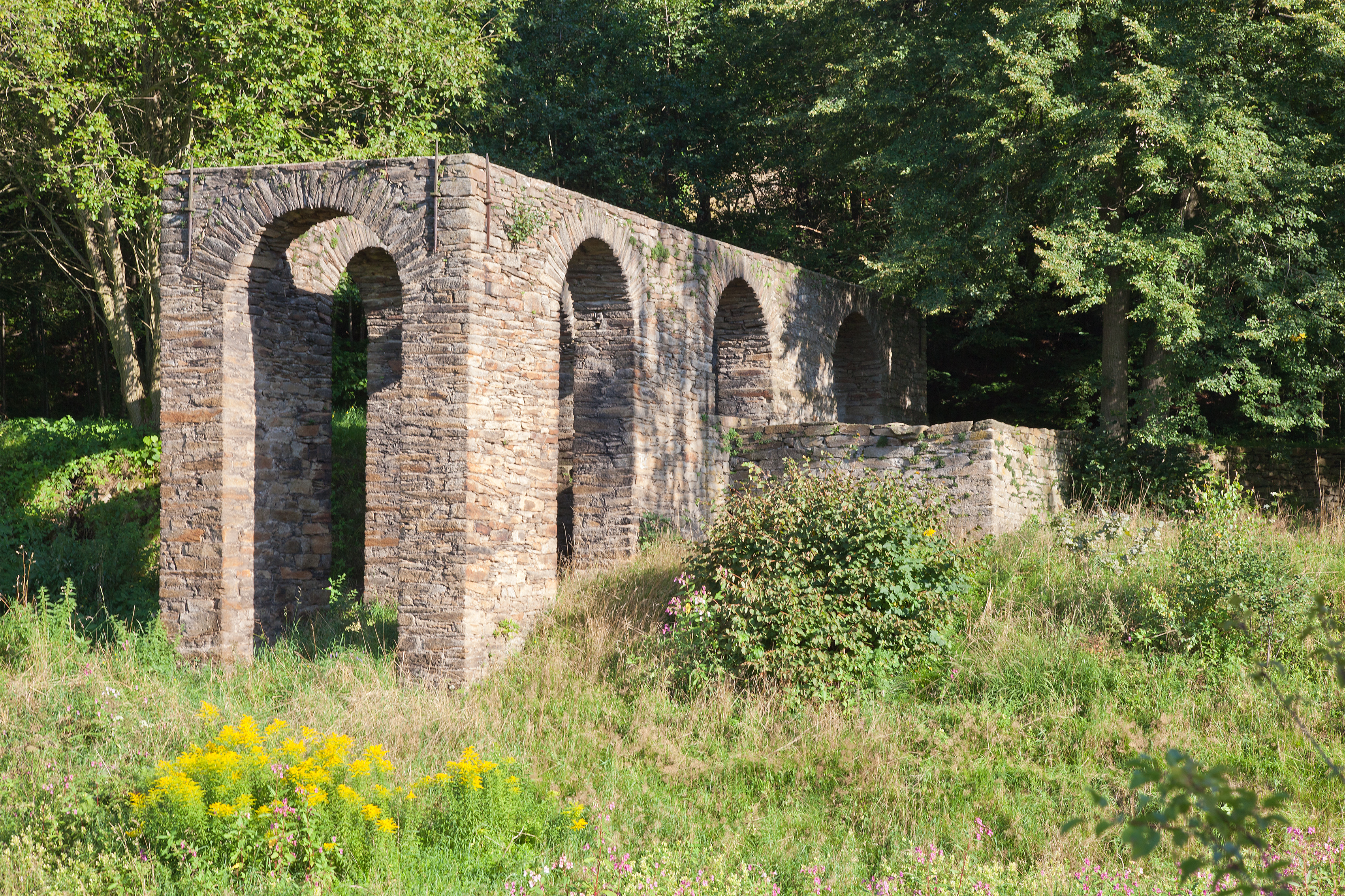 Kahnhebehaus (tub boat lift), near Halsbrücke, Saxony